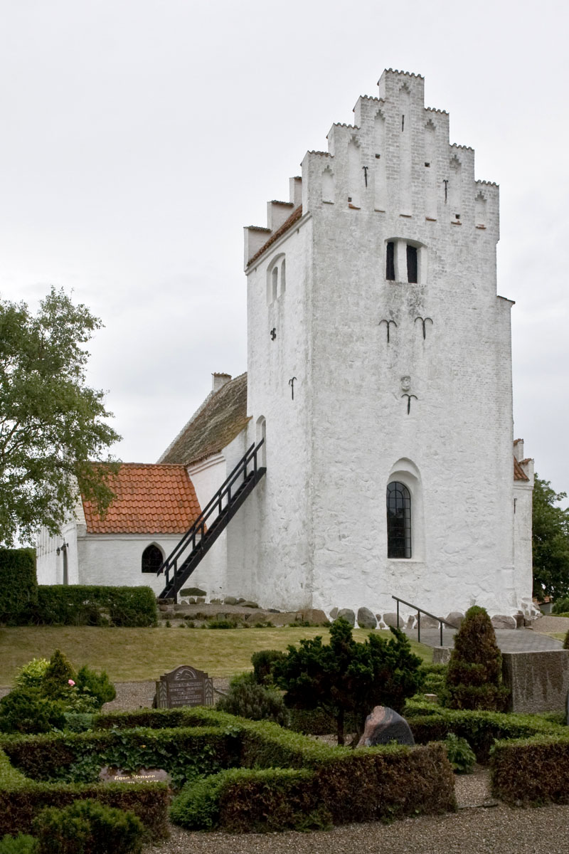 Sejerø church, situated on the danish isle Sejerø